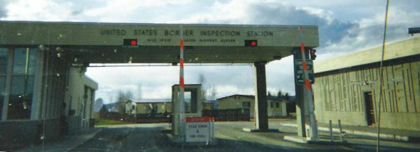 Port Alcan border station, approaching U.S. customs and immigration from Beaver Creek, Yukon Territory of Canada